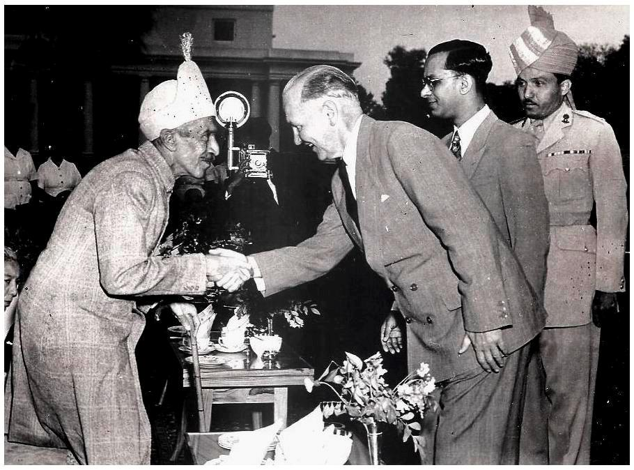 The President of Yugoslavia Josip Broz Tito meeting with H.E.H. the Nizam of Hyderabad in 1956. To the right of President Tito is the late Lord Nawab Lt. Colonel Sayyid Mohammed Amiruddin, Military Secretary to H.E.H. the Nizam of Hyderabad